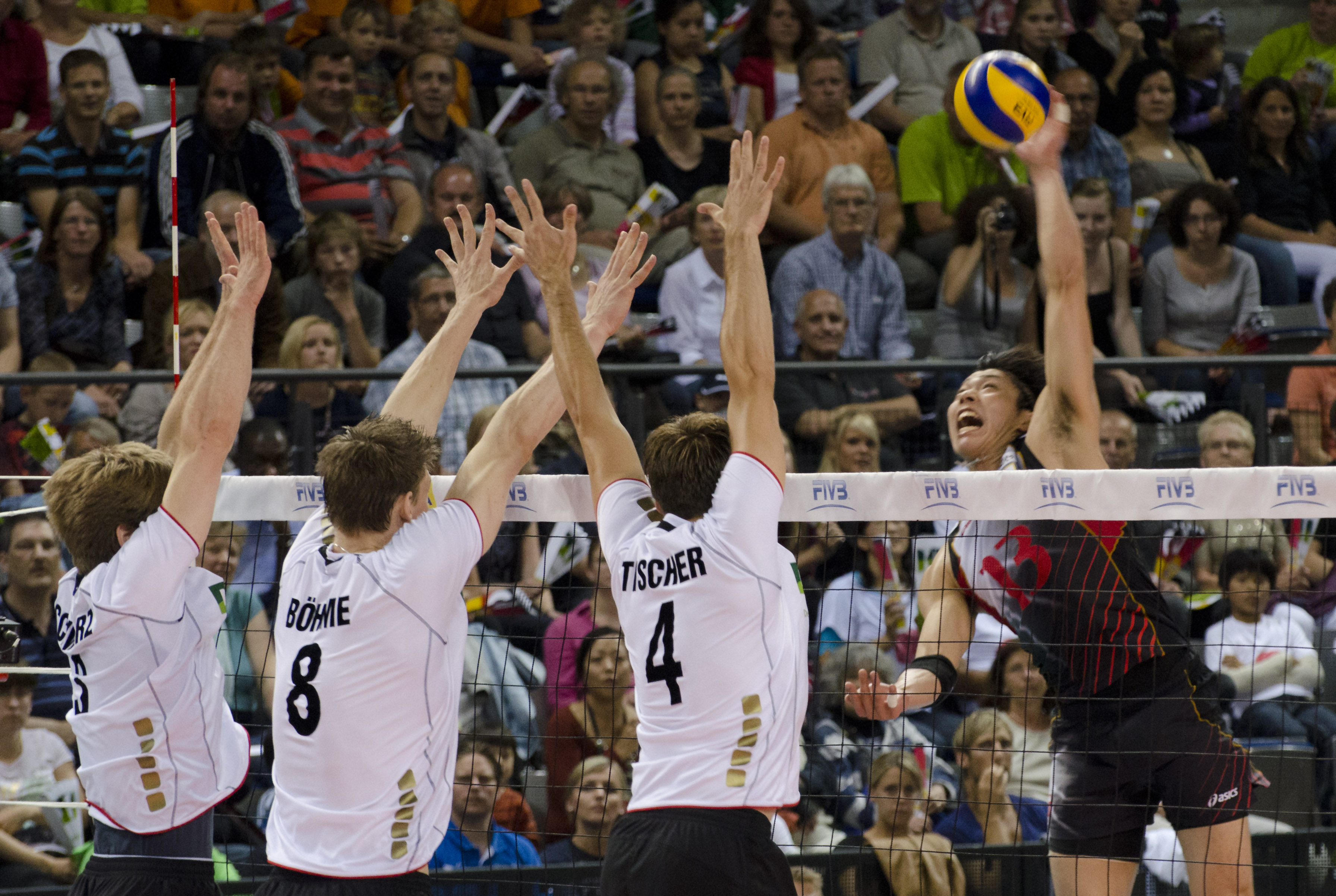 Volleyball: Attack (Kunihiro Shimizu) and triple block. Image taken during World League match Germany - Japan, Stuttgart, July 7, 2011